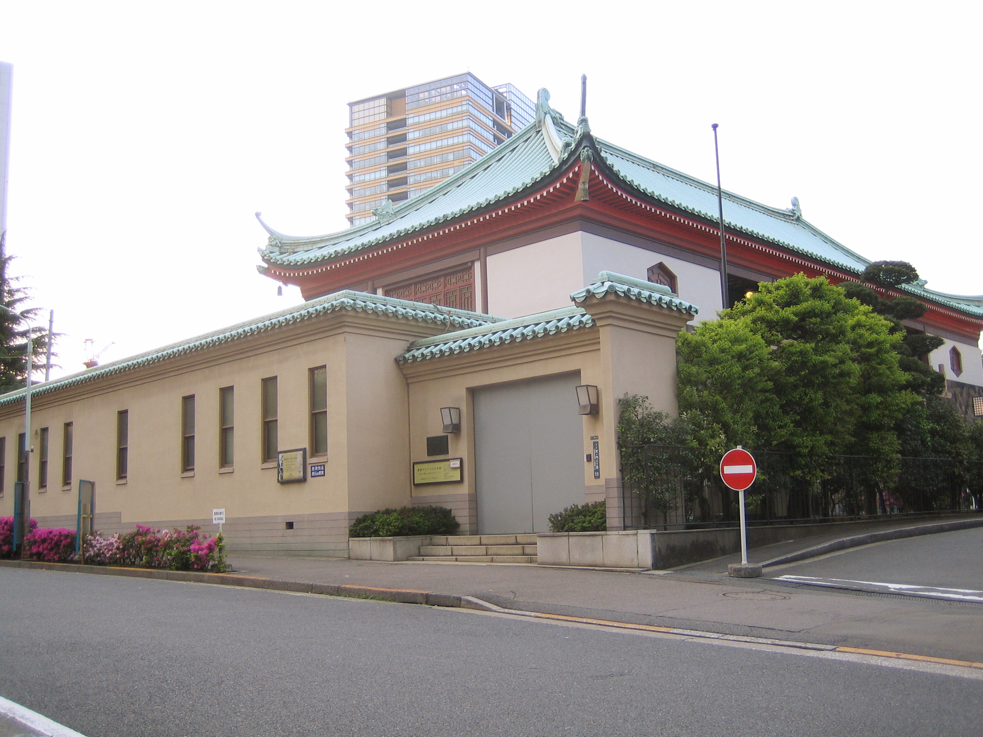 Ōkura Shūkokan (大倉集古館), located in Minato, Tokyo, Japan